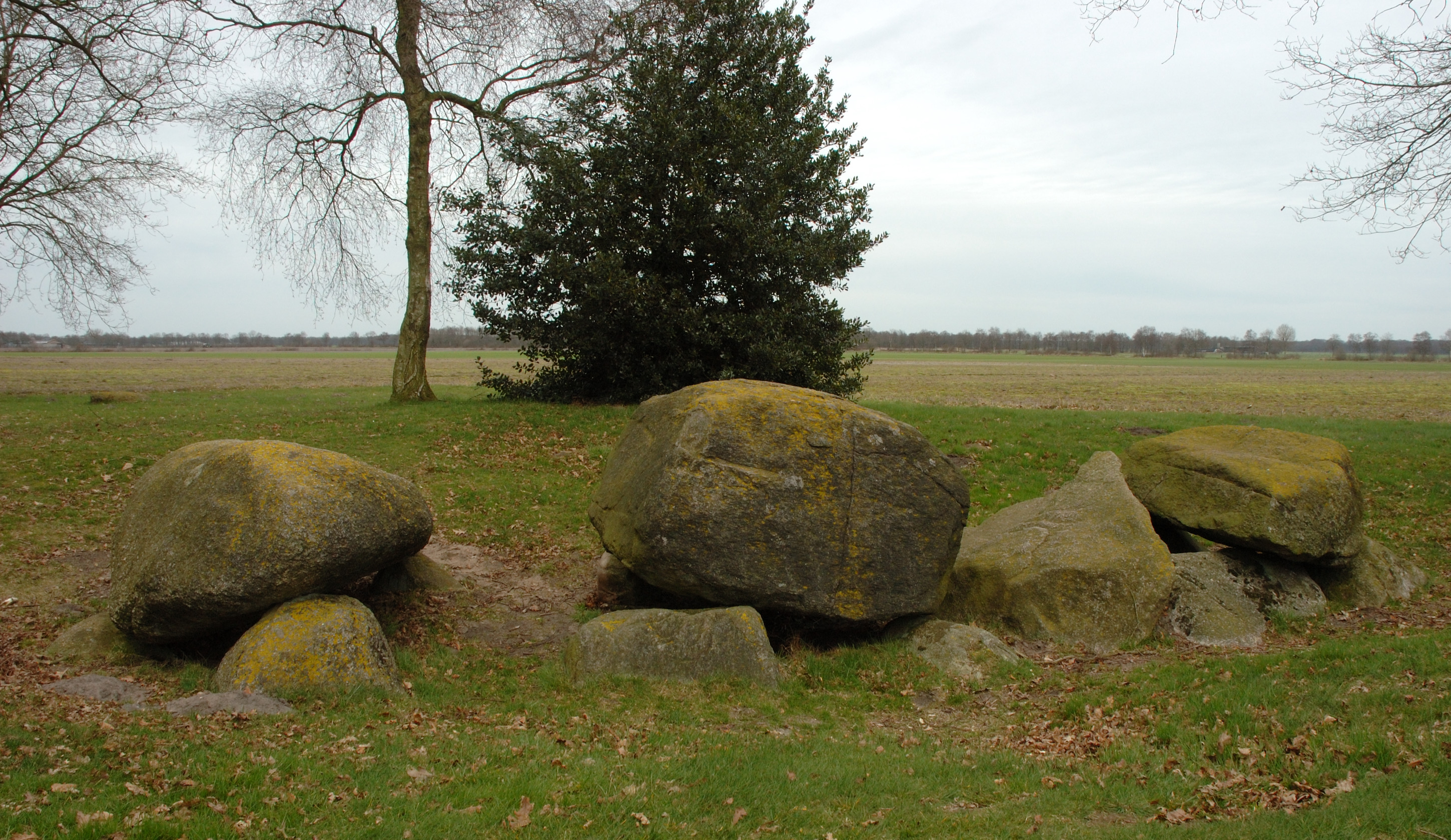 dolmen near the village of Zeijen, province Drenthe, The Netherlands